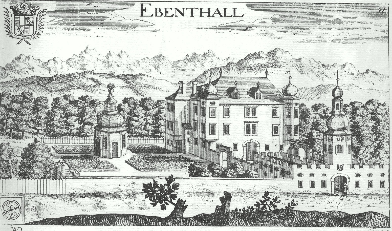 Castle of Ebenthal in the Carinthian municipality Ebenthal in Kärnten in Carinthia / Austria / European Union.